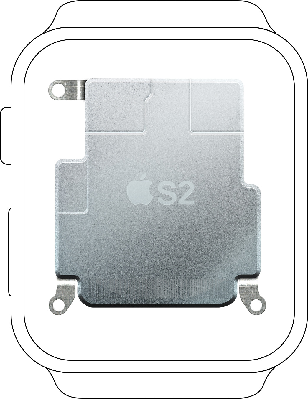 An illustration of Apple's S2 integrated computer placed in the Apple Watch Series 2 for size comparisons. Inspiration for this picture comes from Apple's promo video for the Apple Watch.